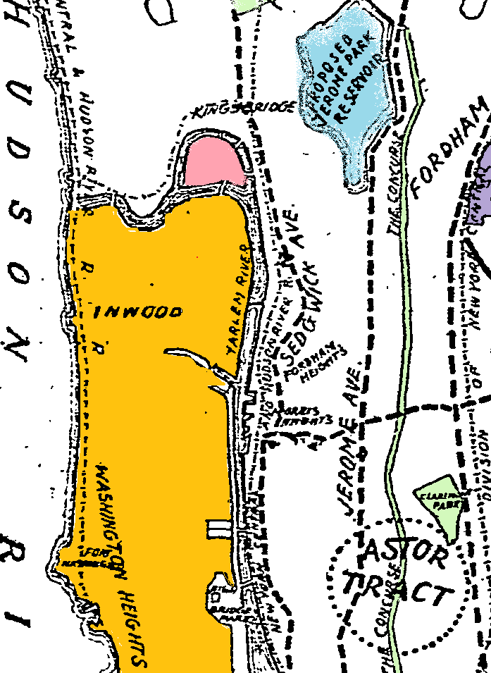 "Detail from: Map Showing Transit Facilities in the Annexed District" (the Bronx joined New York City in 1874-95, before Queens, Brooklyn and Staten Island in 1898) from a long article in The New York Times of Wednesday, May 17, 1896 (page 15) headlined: "FUTURE OF NEW WARDS; New-York's Possession in Westchester County Rapidly Developing. TROLLEY AND STEAM ROAD SYSTEMS Vast Areas Being Brought Close to the Heart of the City -- Miles of New Streets and Sewers. BOTANICAL AND ZOOLOGICAL GARDENS. Advantages That Will Soon Relieve Crowded Sections of the City of Thousands of Their Inhabitants." Original in black and white, tinted to show the following: light green: Parks; medium green: Woodlawn Cemetery; dark green: Sports facilities; light blue: proposed Jerome Park Reservoir; violet: St. John's College (now Fordham University); orange: Manhattan and New York City before 1874; pink: Marble Hill, an area that remained in Manhattan after being separated by water; red line: City Limits of New York in 1896.